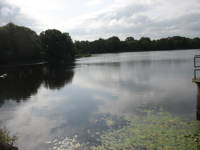 Llyn Pen-y-parc reservoir